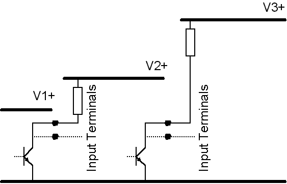 Schematic of different V+ (Vcc) levels in electronic circuitry